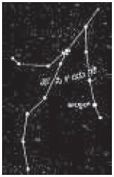 a constellation famous as eclipsing binaries